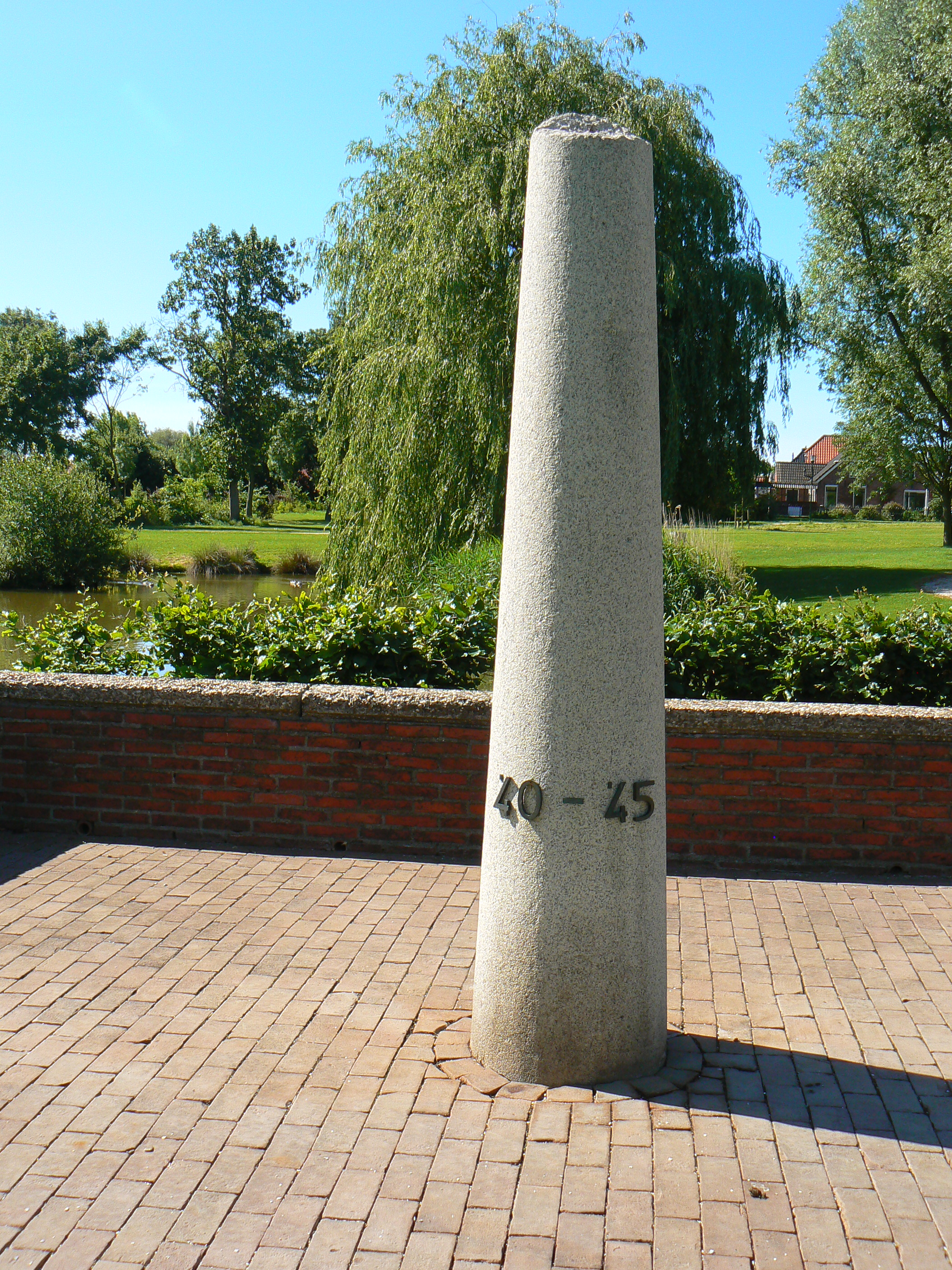 War memorial (1970) by T.G. Verlaan, Prinses Amaliapark in Ten Boer/The Netherlands